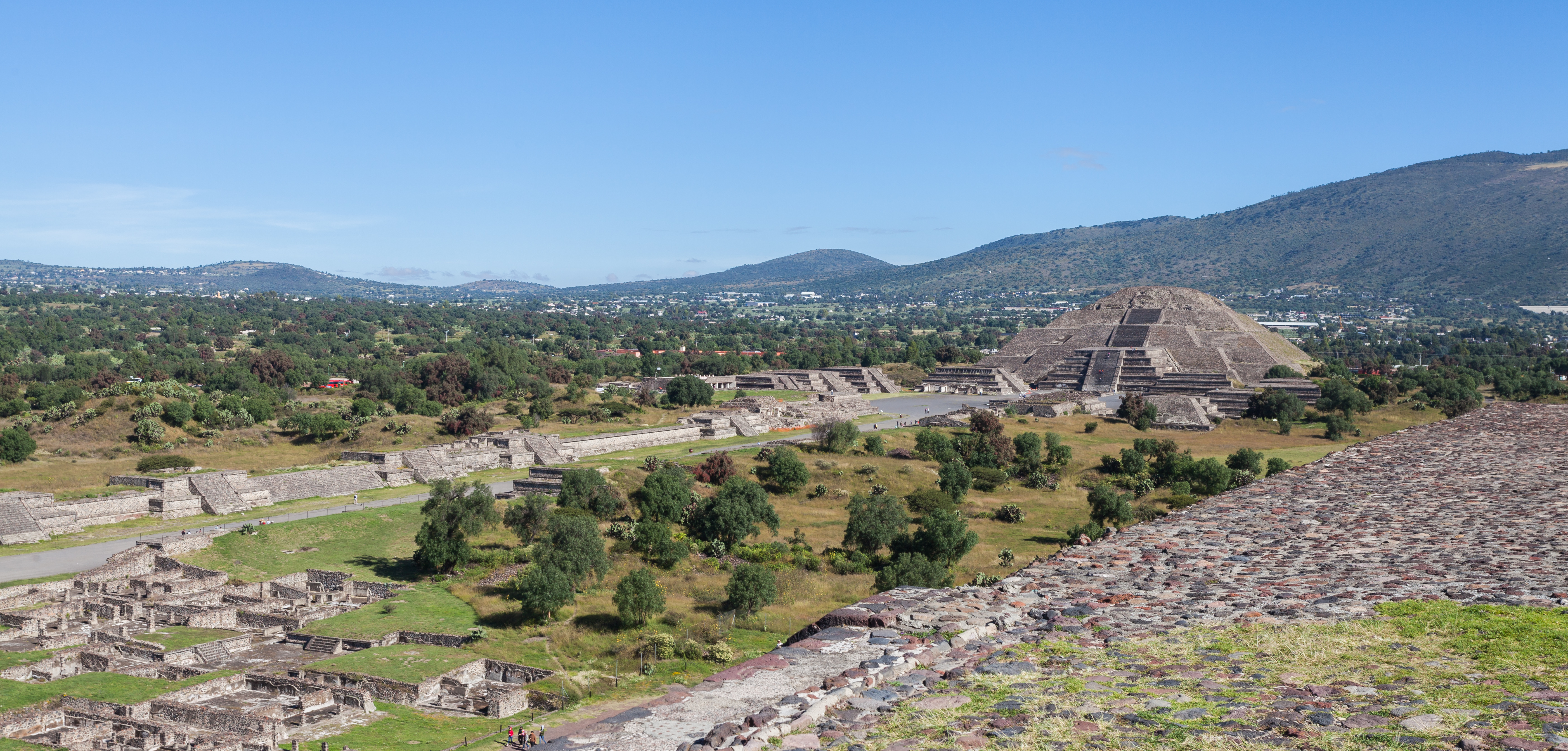 Pyramid of the Moon, Teotihuacán, Mexico